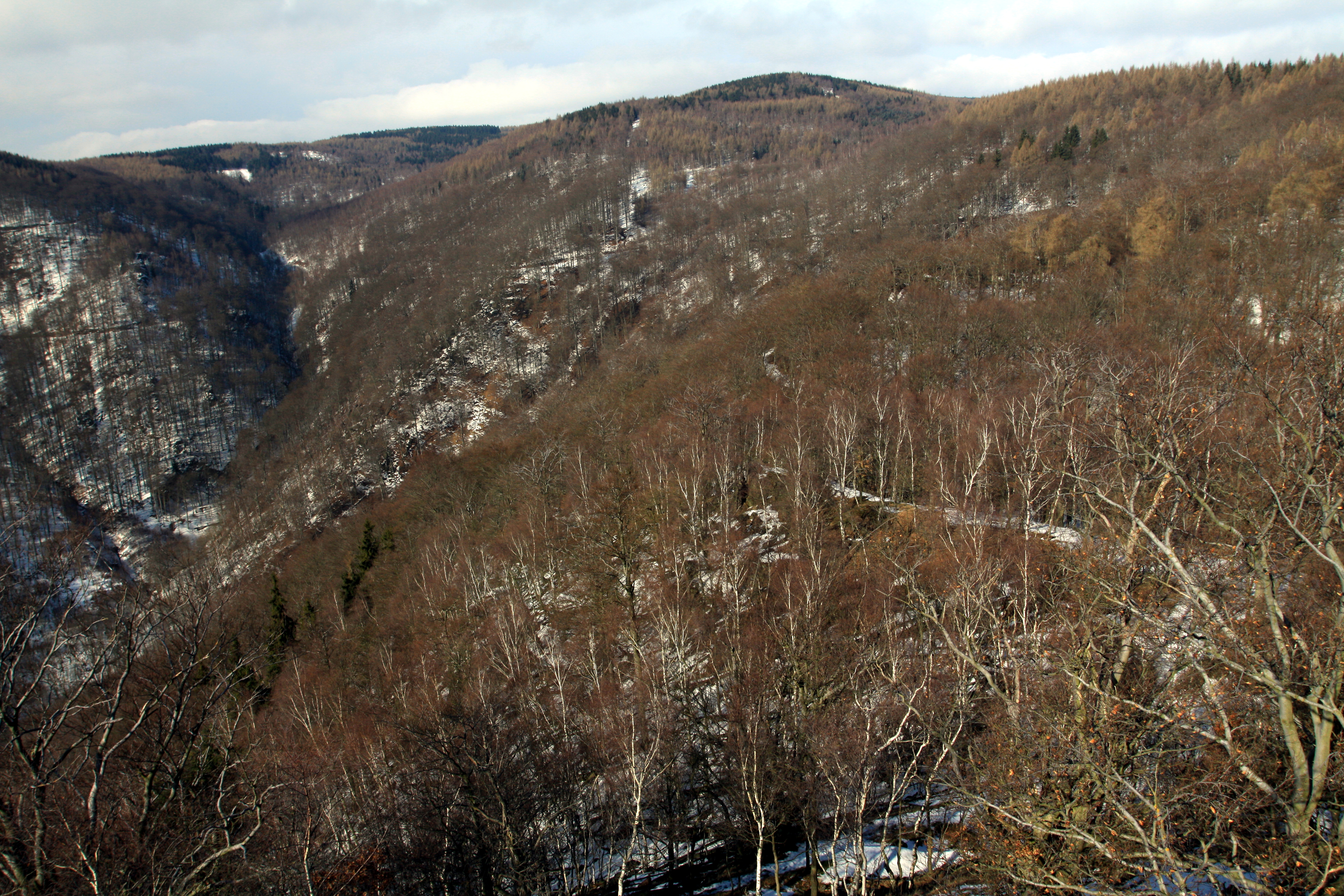 National nature reserve Jezerka near Horní Jiřetín in Most District, Czech Republic